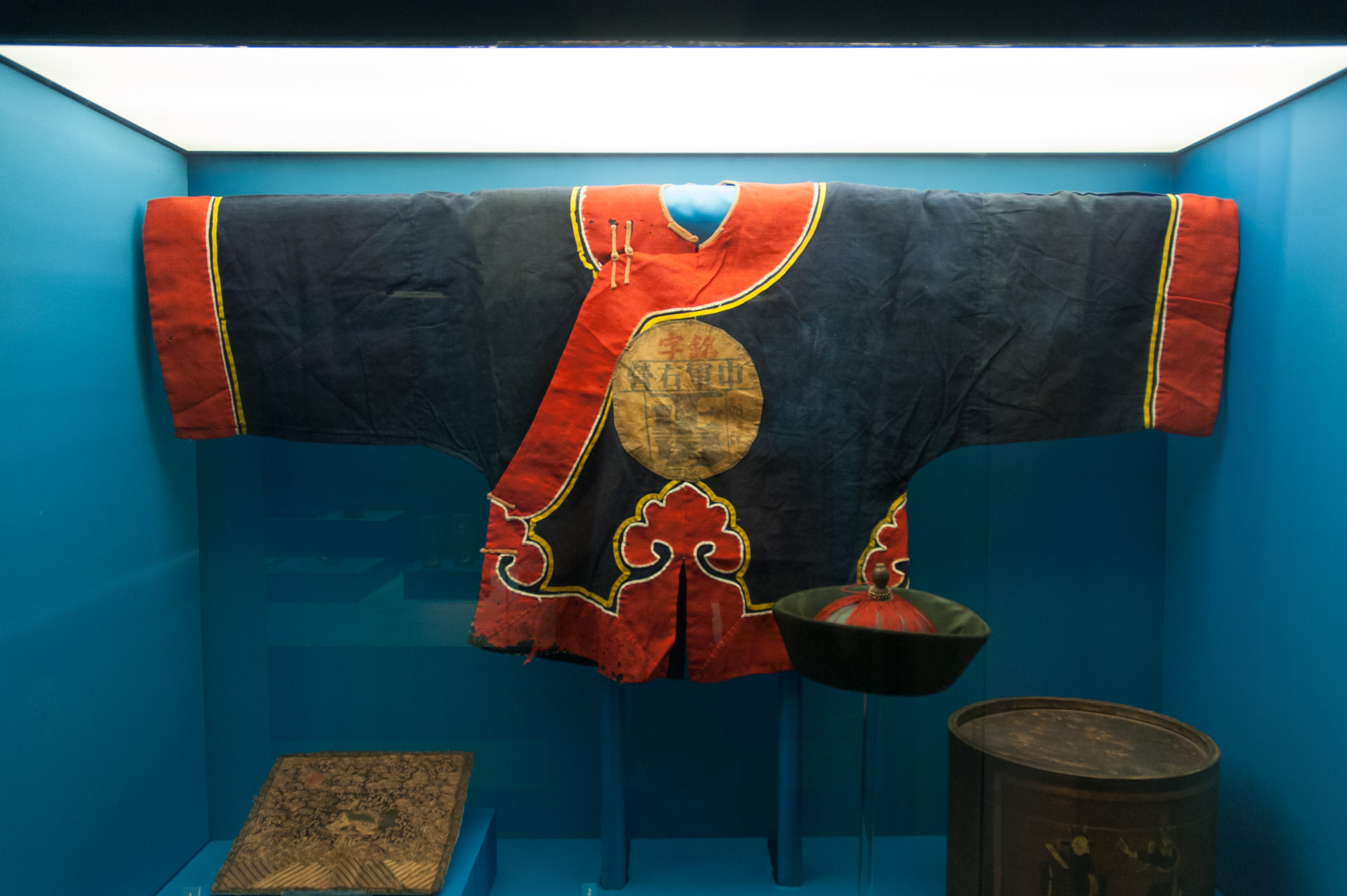 Jacket of the uniform of the Ming Army, one of the strongest divisions of the Huai Army of Li Hongzhang. Qing dynasty. Hong Kong Museum of Coastal Defence.